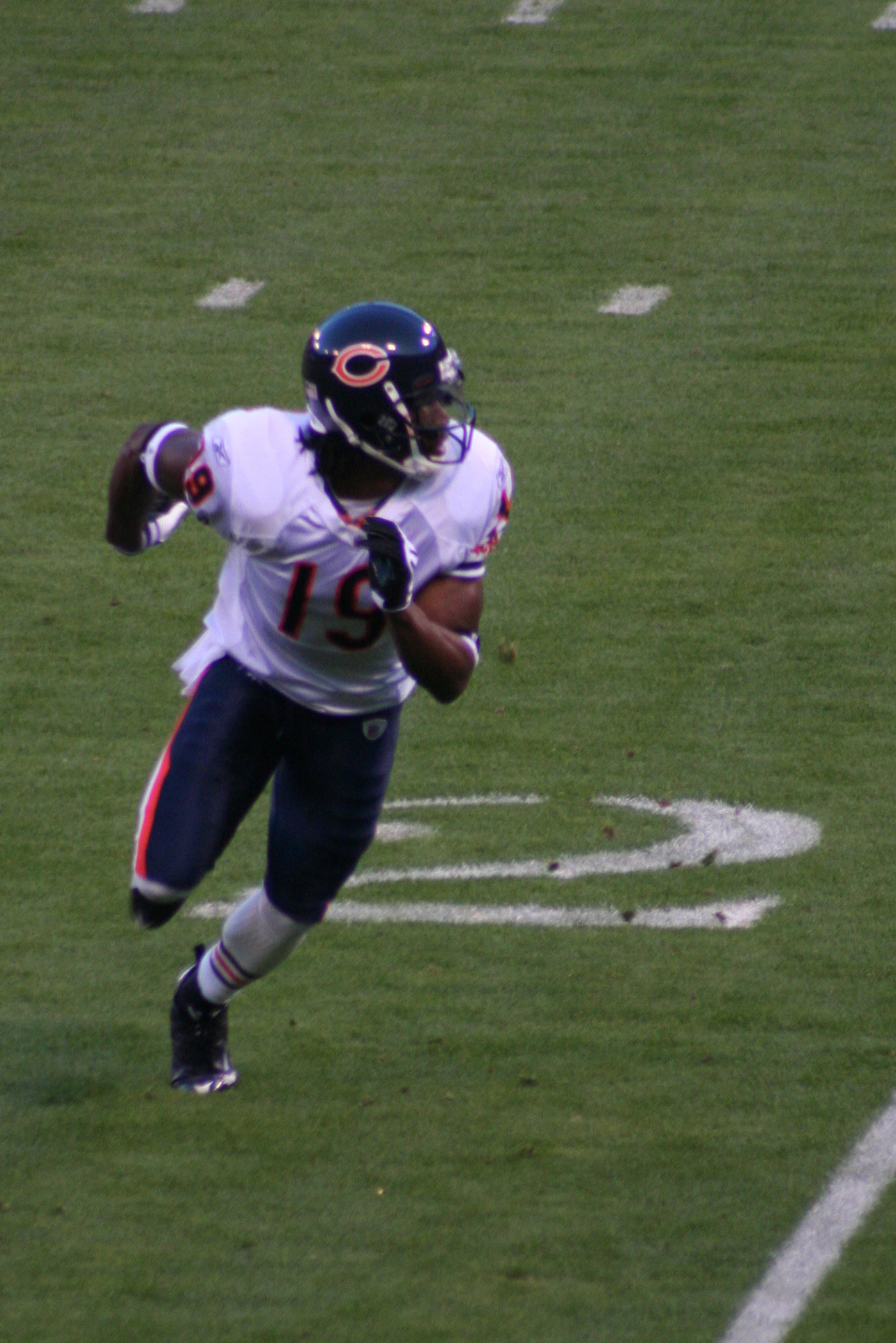 Devin Aromashodu scrambles to catch a pass during pre-game warm ups against the San Fransisco 49ers